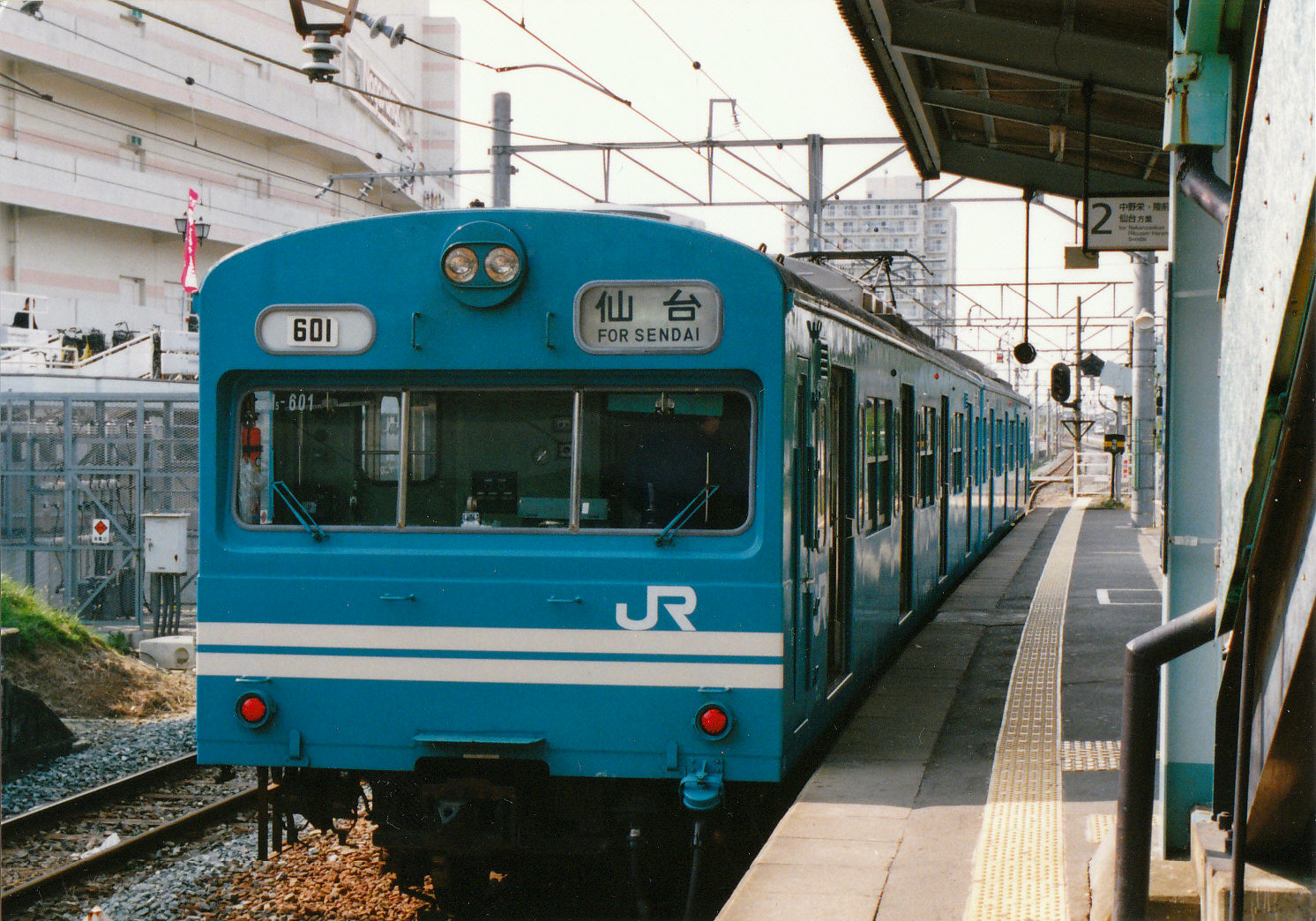 JR East 105 series 2-car EMU on the Senseki Line